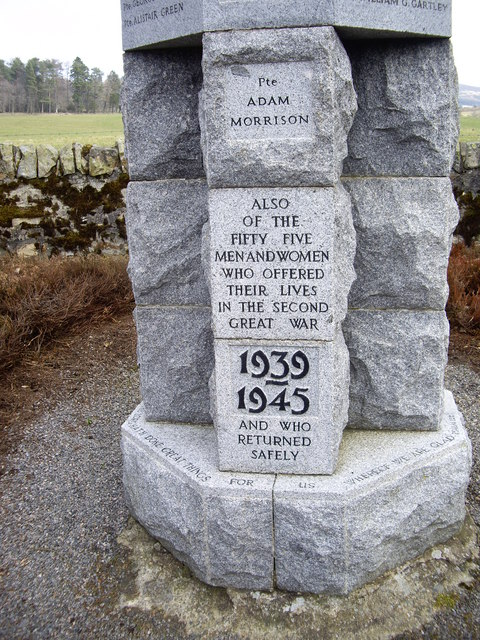 WW2 Roll of Honour Only Pte Adam Morrison is listed as a Haugh of Glass casualty of the World War 1929-45; and curiously he is not listed on the Commonwealth War Graves site. Inscribed around the plinth of the War Memorial are these words 'The Lord hath done geat things for us whereof we are glad. Psalm 126'.